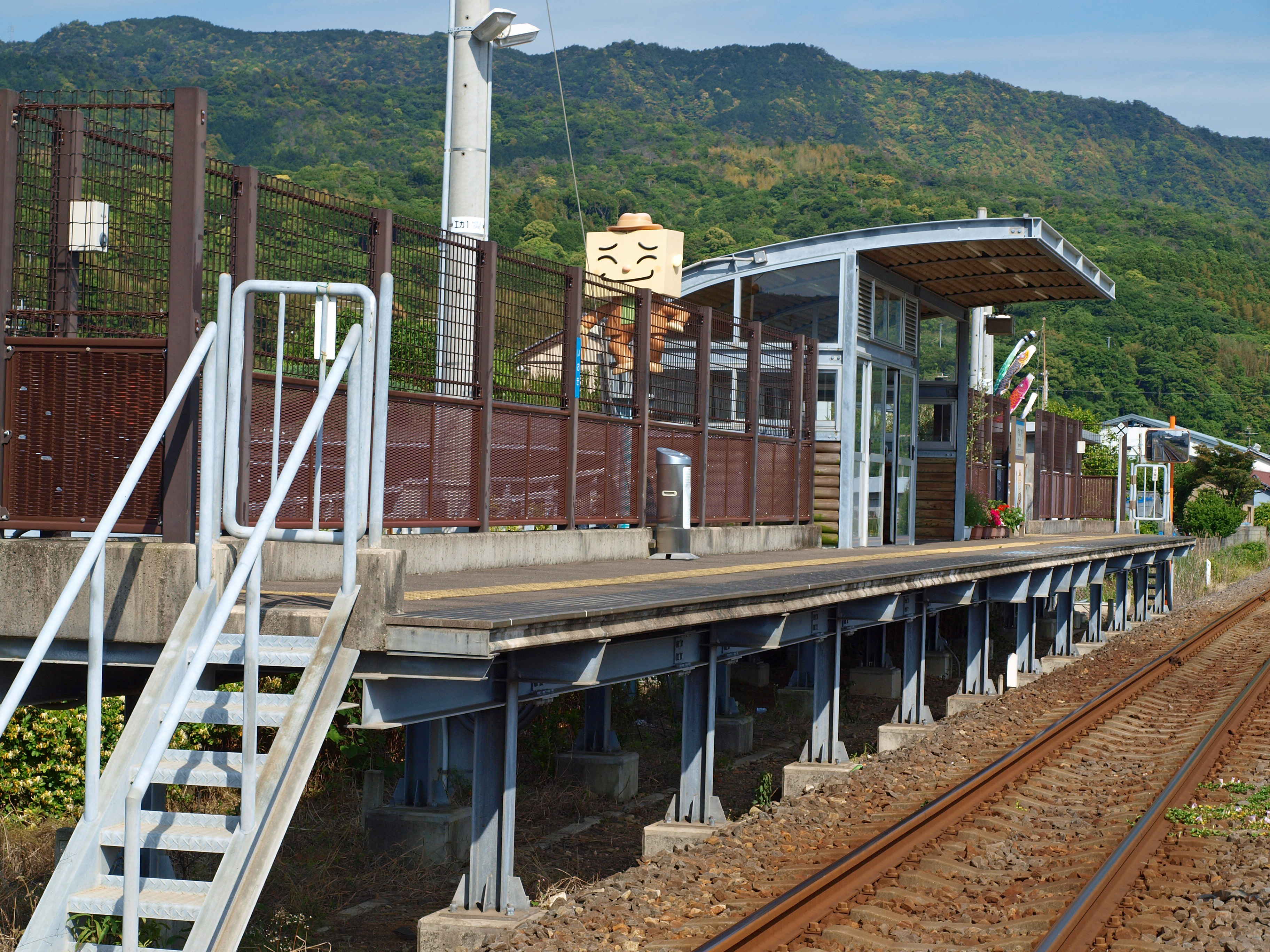 Ioki Station, Gomen-Nahari Line（Asa Line), Tosa Kuroshio Railway, Japan